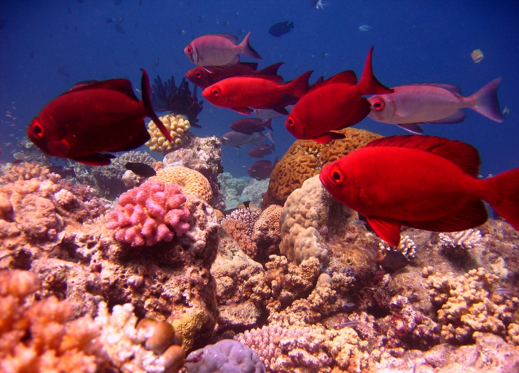 A shoal of Crescent-tail Bigeye (Priacanthus hamrur) in various colour phases. Steve's Bommie, Ribbon Reefs, Great Barrier Reef